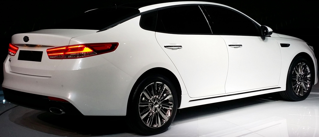 Kia K5